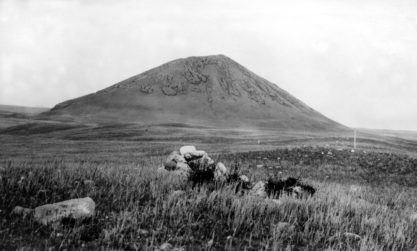 1920 photo of Eagle Butte in the Bearpaw Mountains, Montana, looking west